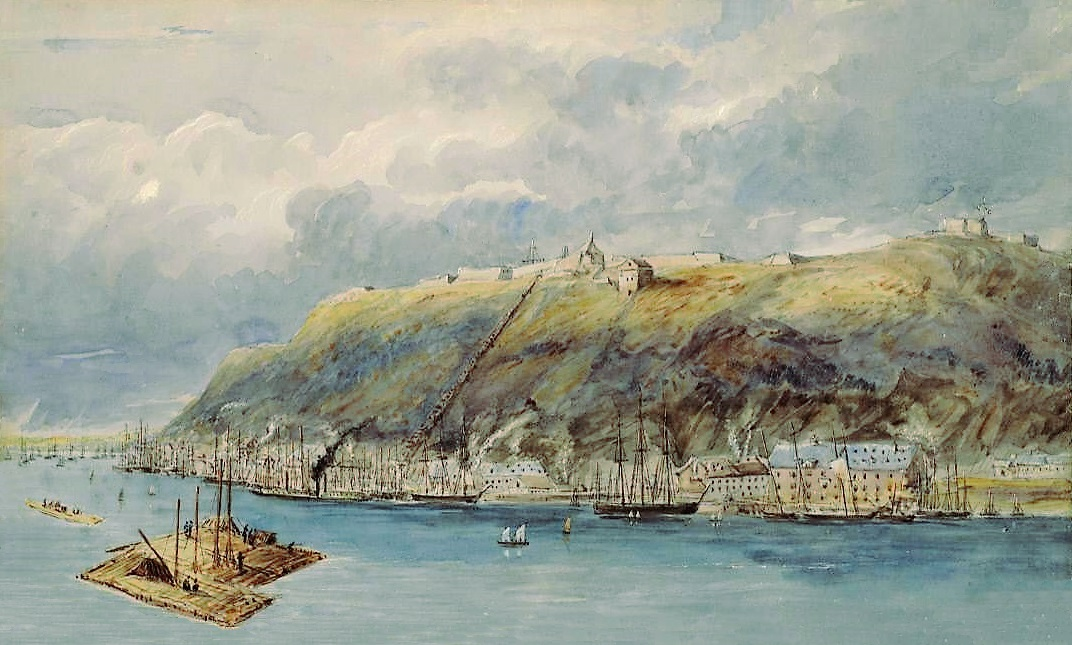 Quebec from the Riverview of Québec City, Québec, Canada Watercolour over soft pencil on prepared ground, 31.4 × 52.9 cm